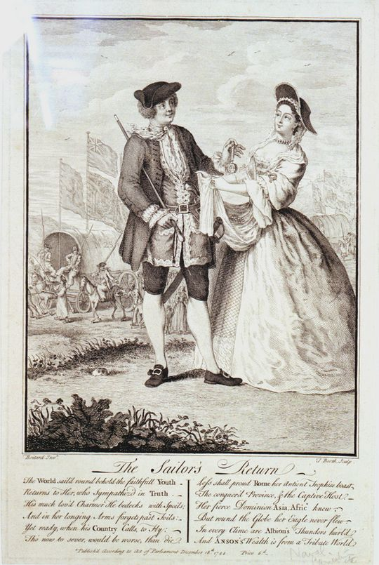 The Sailor's Return (caricature); engraving & etching